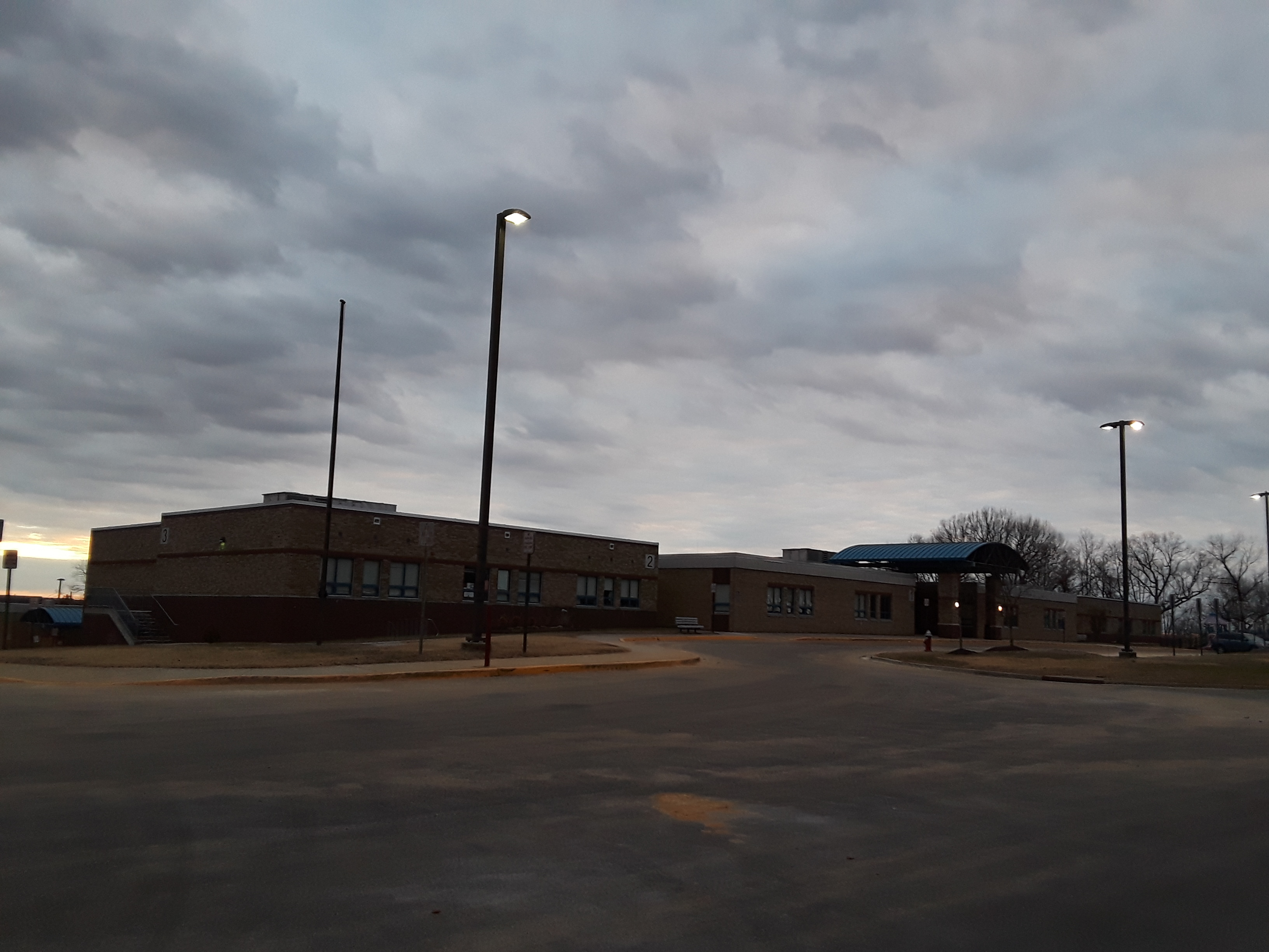 Groveton Elementary School building in January, 2018